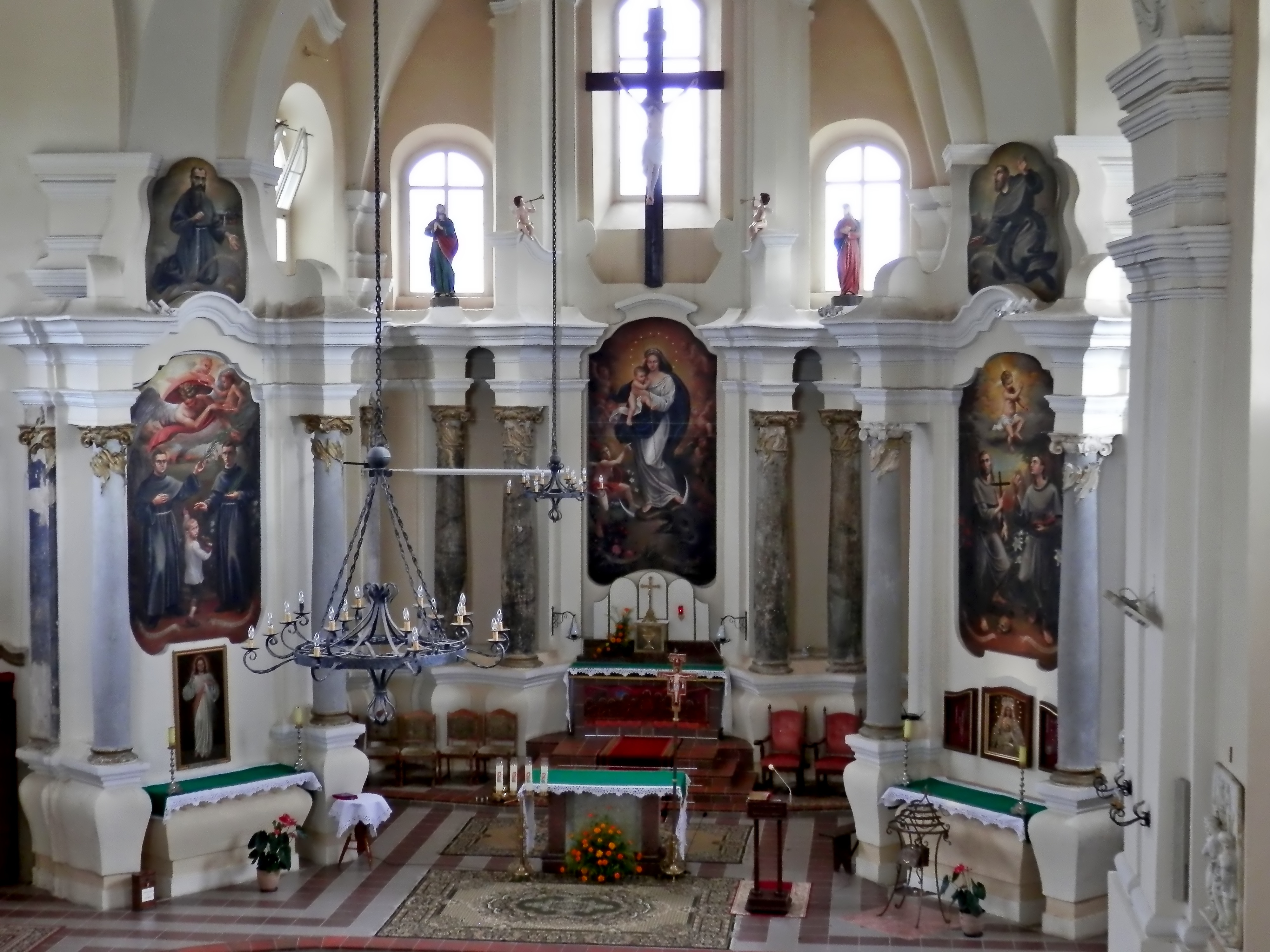 Franciscan Church of Saint Michael the Archangel. Ivyanets, Belarus.